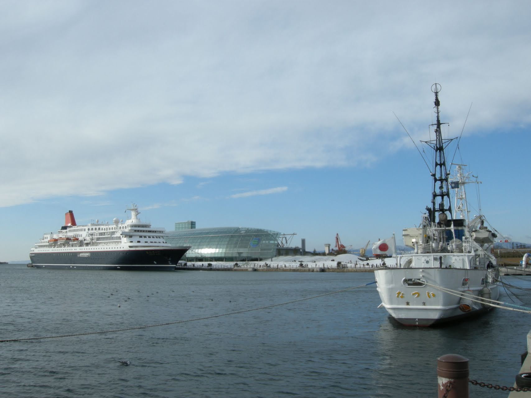 Nippon Maru and JCG Natsui at the Port of Onahama.